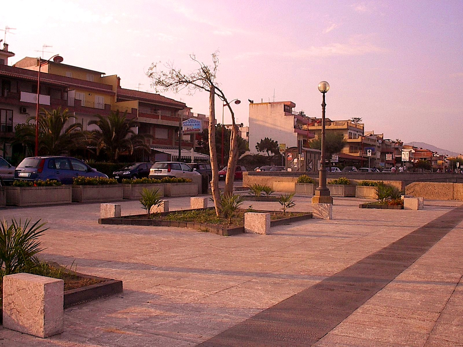 One of the numerous plazas of the waterfront of Santa Teresa di Riva (Messina, Sicily, Italy)